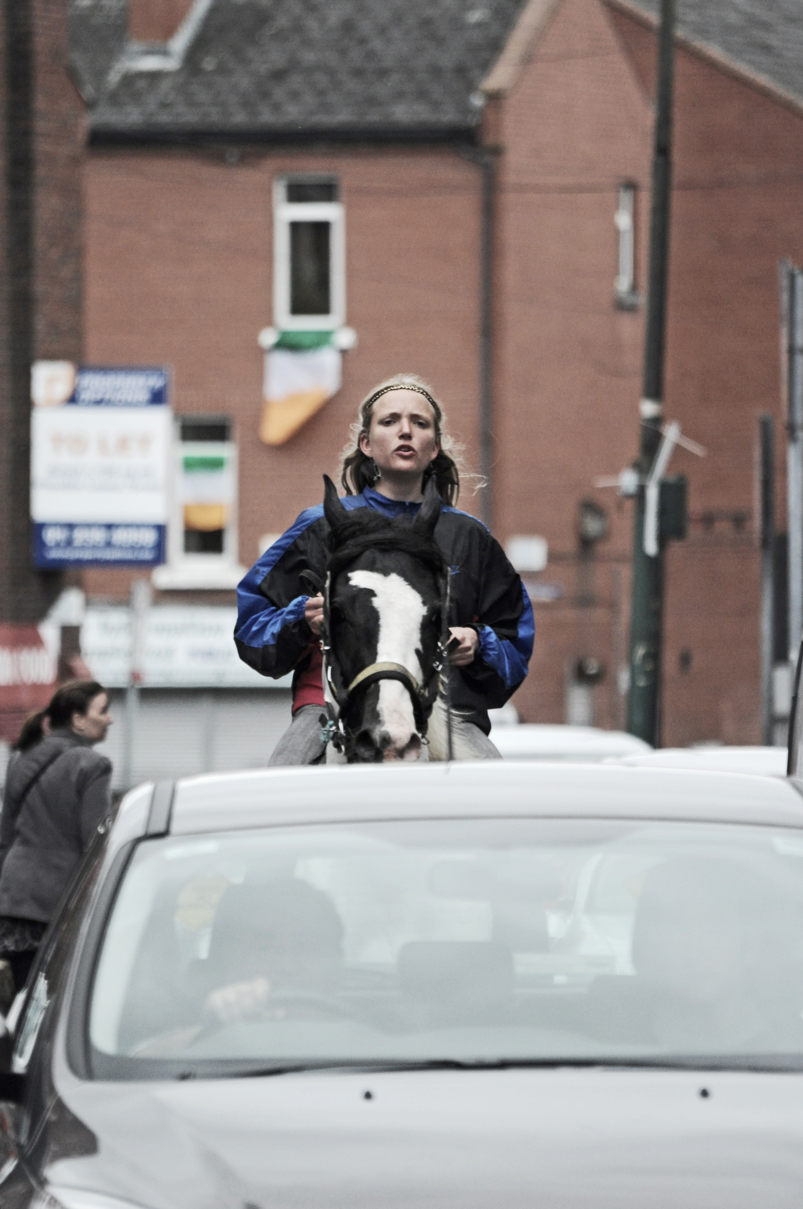 Kristin Vollset (aka The Musical Slave) on her horse, Danu, going up Meath Street, in Dublin, Ireland.